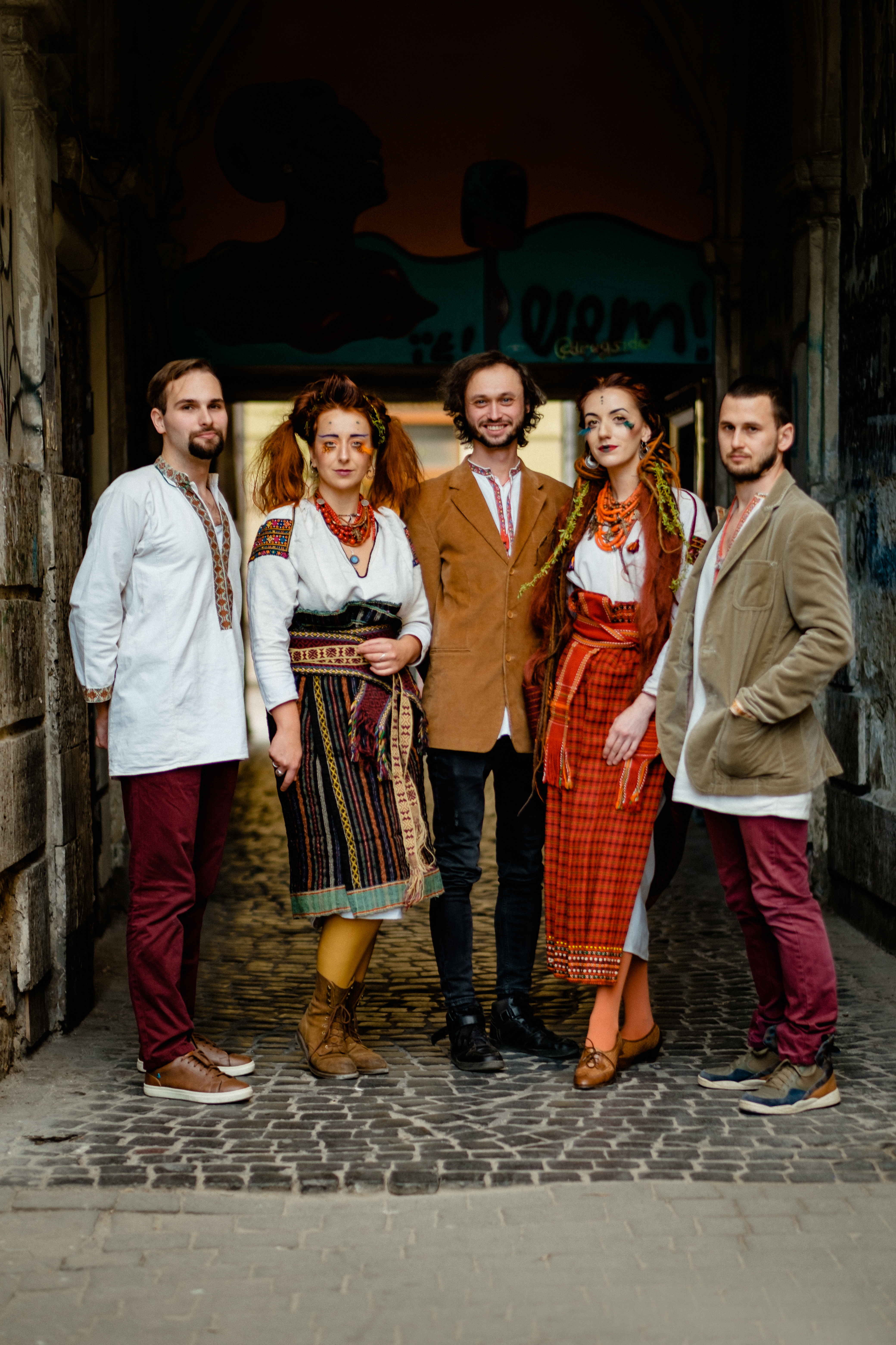 Musicians of Ukrainian folk-band Torban founded in Lviv in 2016